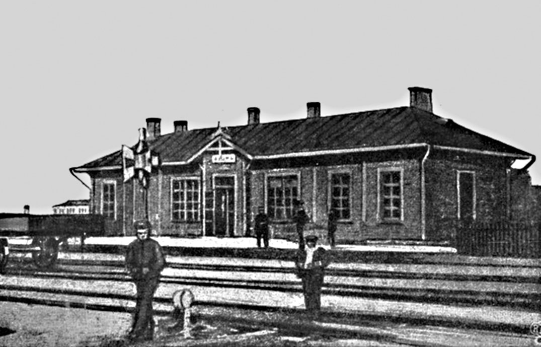 Railway station in Lutsk (now Ukraine). End of the 19th century. Postcard.